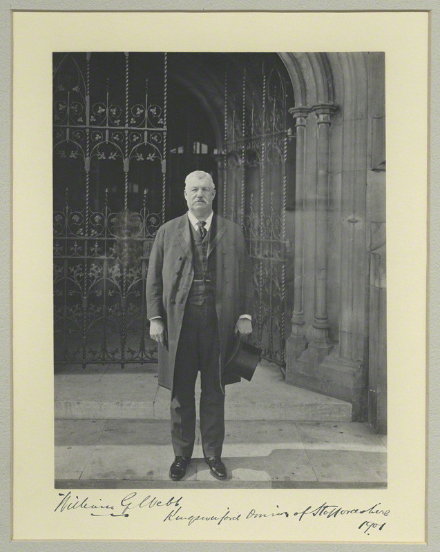 Photograph of William George Webb (died 1905), English politician.